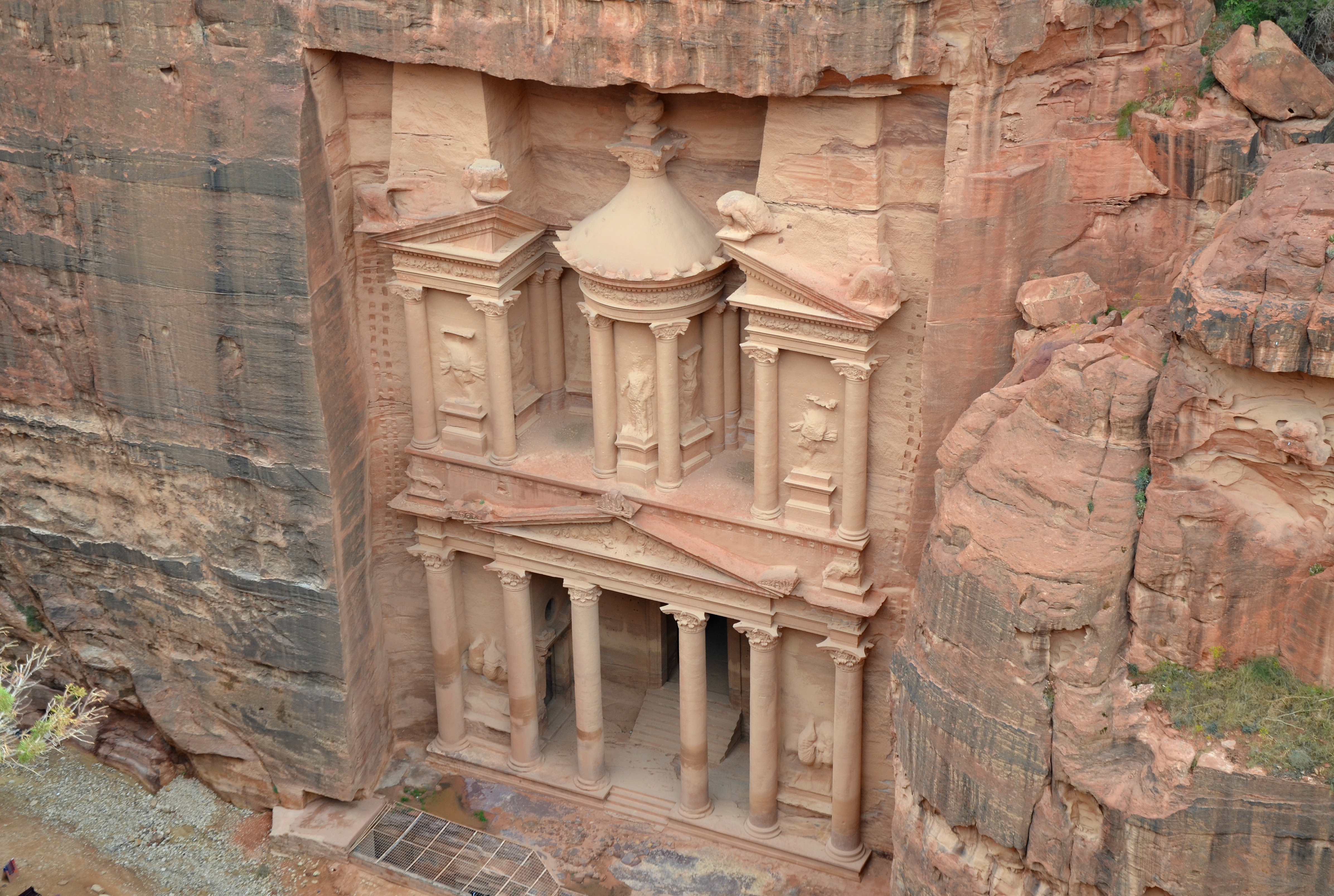 The Treasury from above, Petra, Jordan